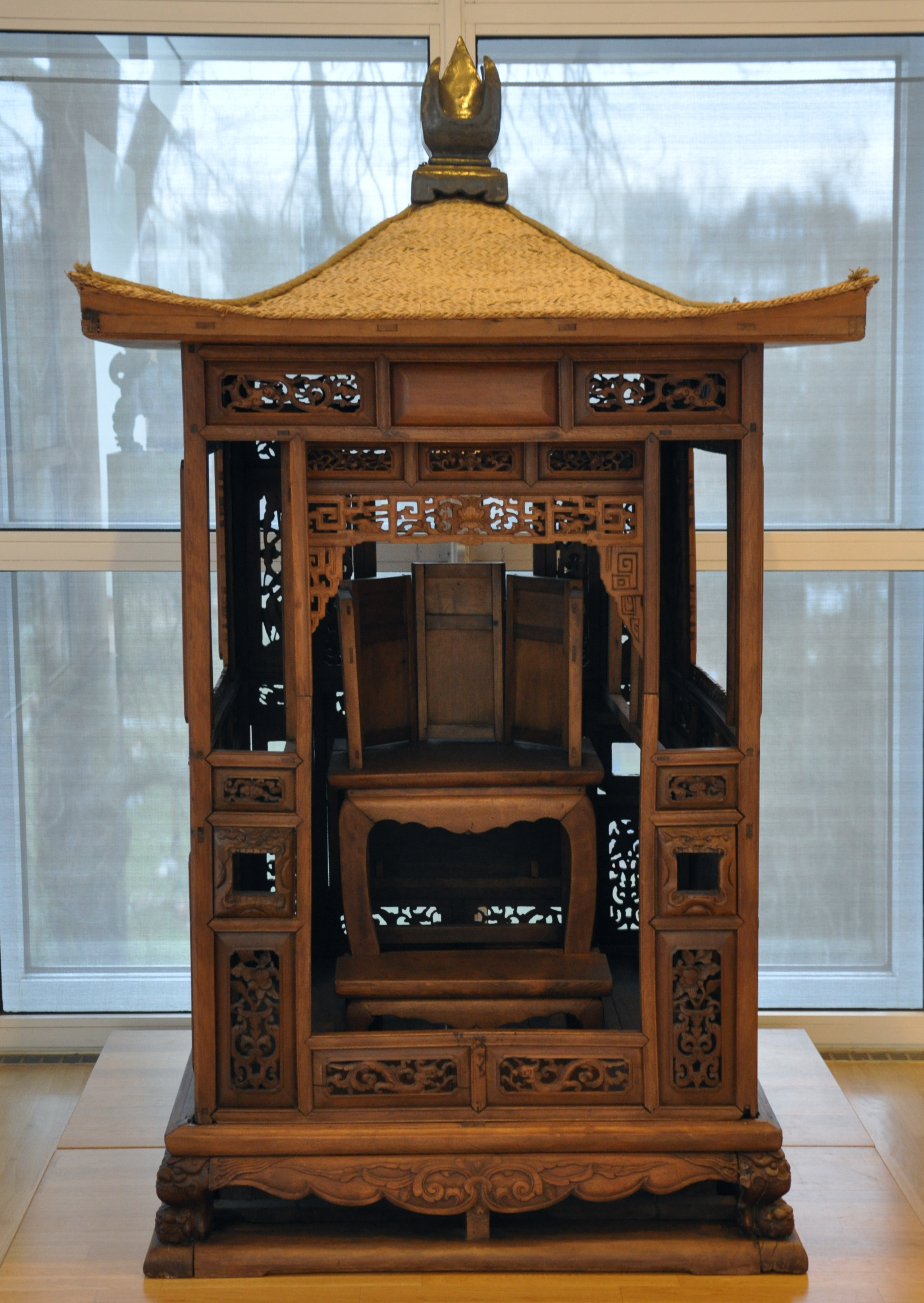 Palanquin for a Deity; wood (originally coloured); China (Taiwan), Qing dynasty, c. 1900; Museum für Angewandte Kunst Frankfurt am Main